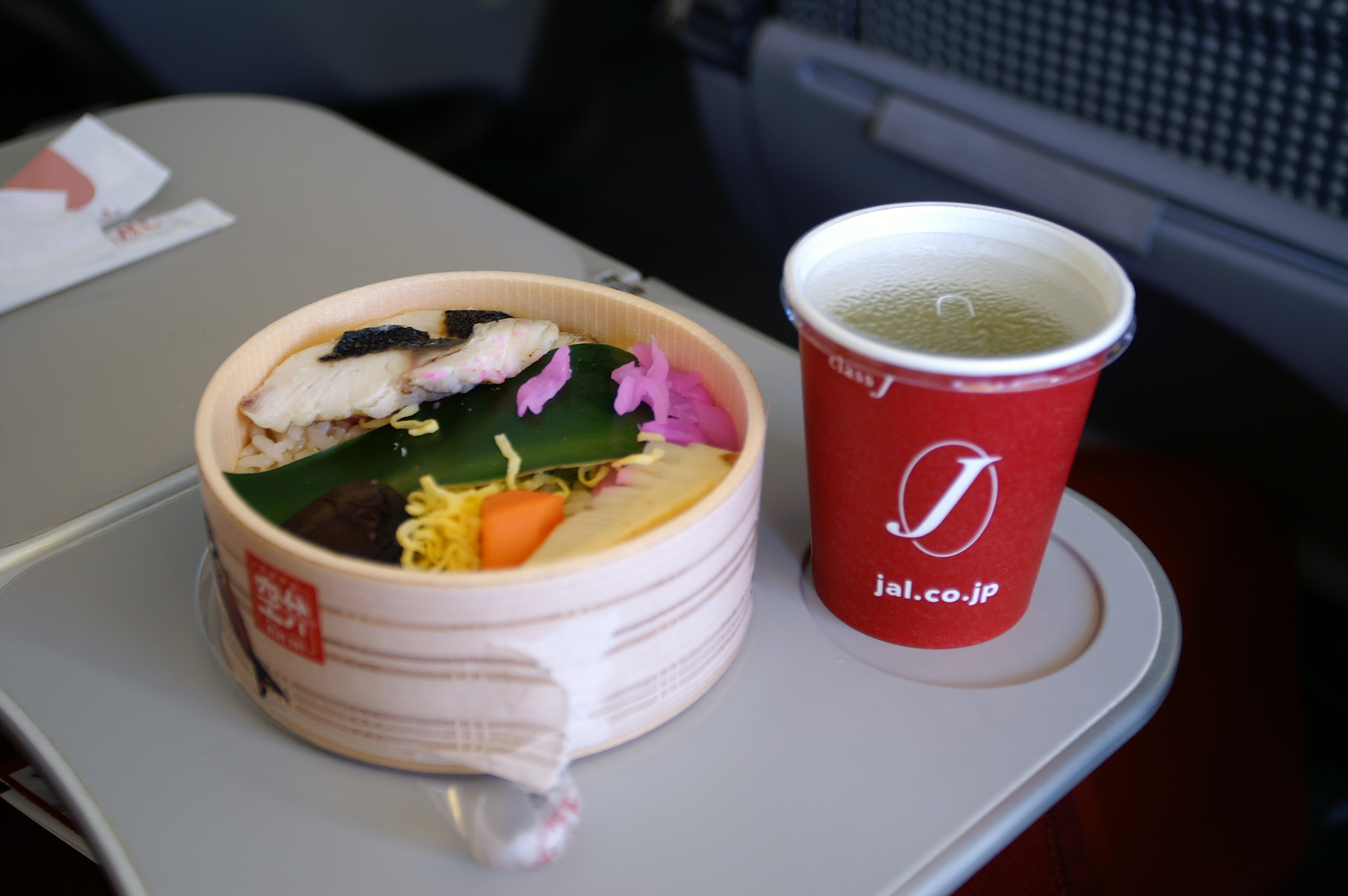 UnknownUnknown description (2007/02/03 In Flight, JL3384, JAPAN) /* Flight Data */ Airline: Japan Airlines International (JL/JAL) Airplane: Boeing 777-246 (JA8981 "Sirius") Flight No.: JL3384 From: Naha Airport (OKA/ROAH) To: Kobe Airport (UKB/RJBE) Seat No.: 87K Class: Class J [IT]